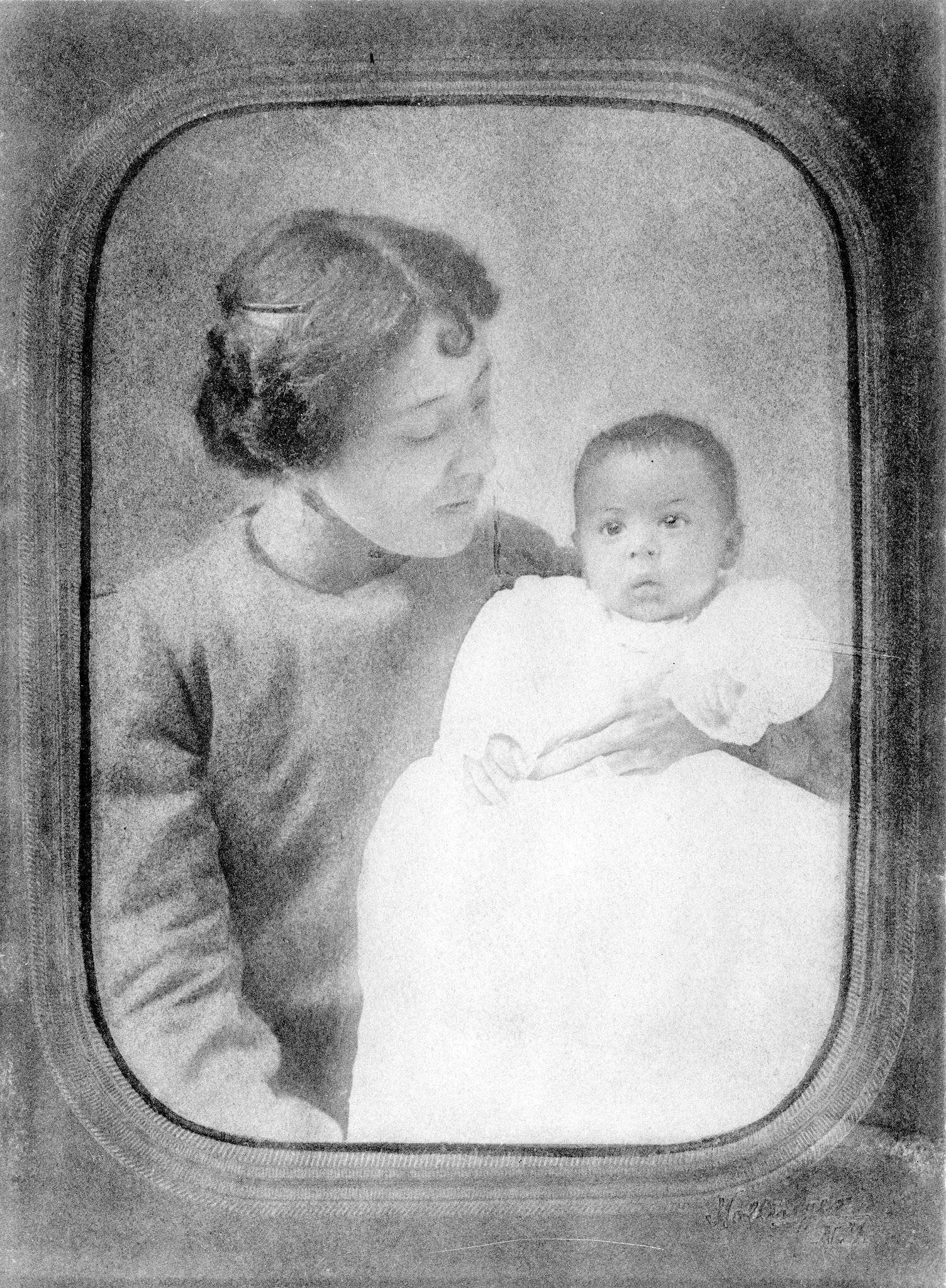 Langston Hughes as a baby, held by his mother Caroline ("Carrie") Mercer Langston.